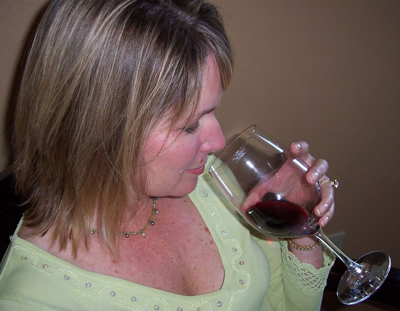 Smelling wine as part of wine tasting